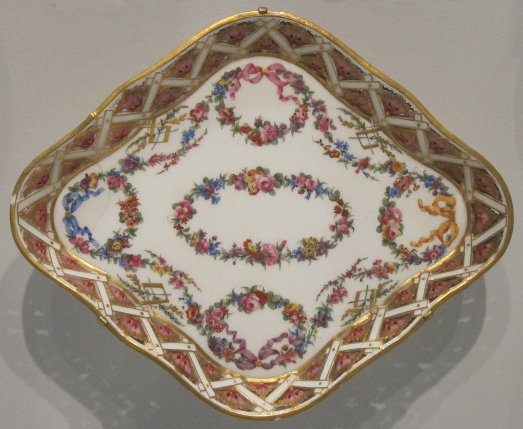 French tray, c. 1770, Sévres, soft-paste porcelain, Honolulu Museum of Art